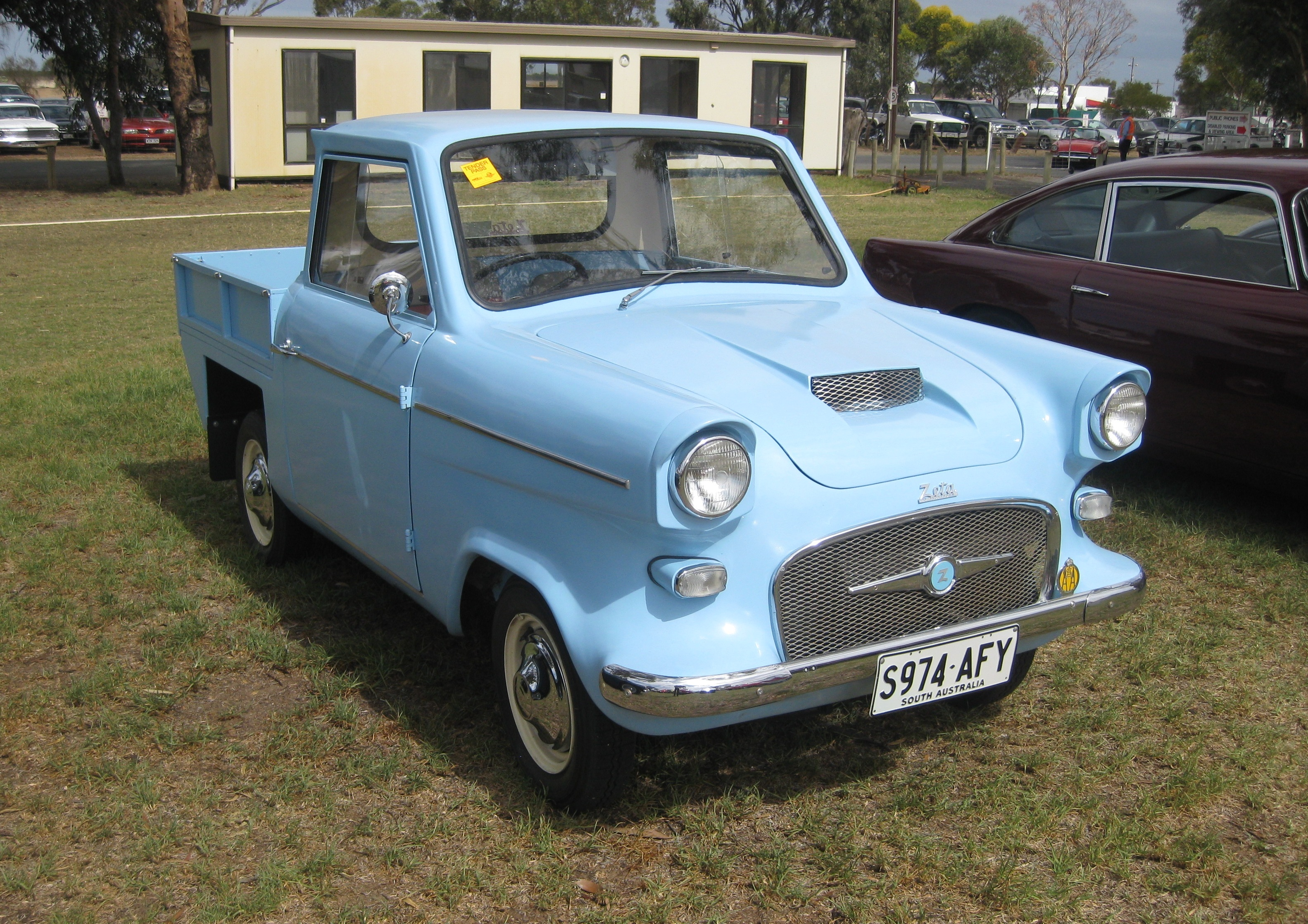 Zeta Utility. A utility version of the Zeta sedan which was built in Australia by Lightburn & Co. Limited from 1963 to 1965. The rear bodywork on this example differs from that shown on the Zeta Utility sales brochure.